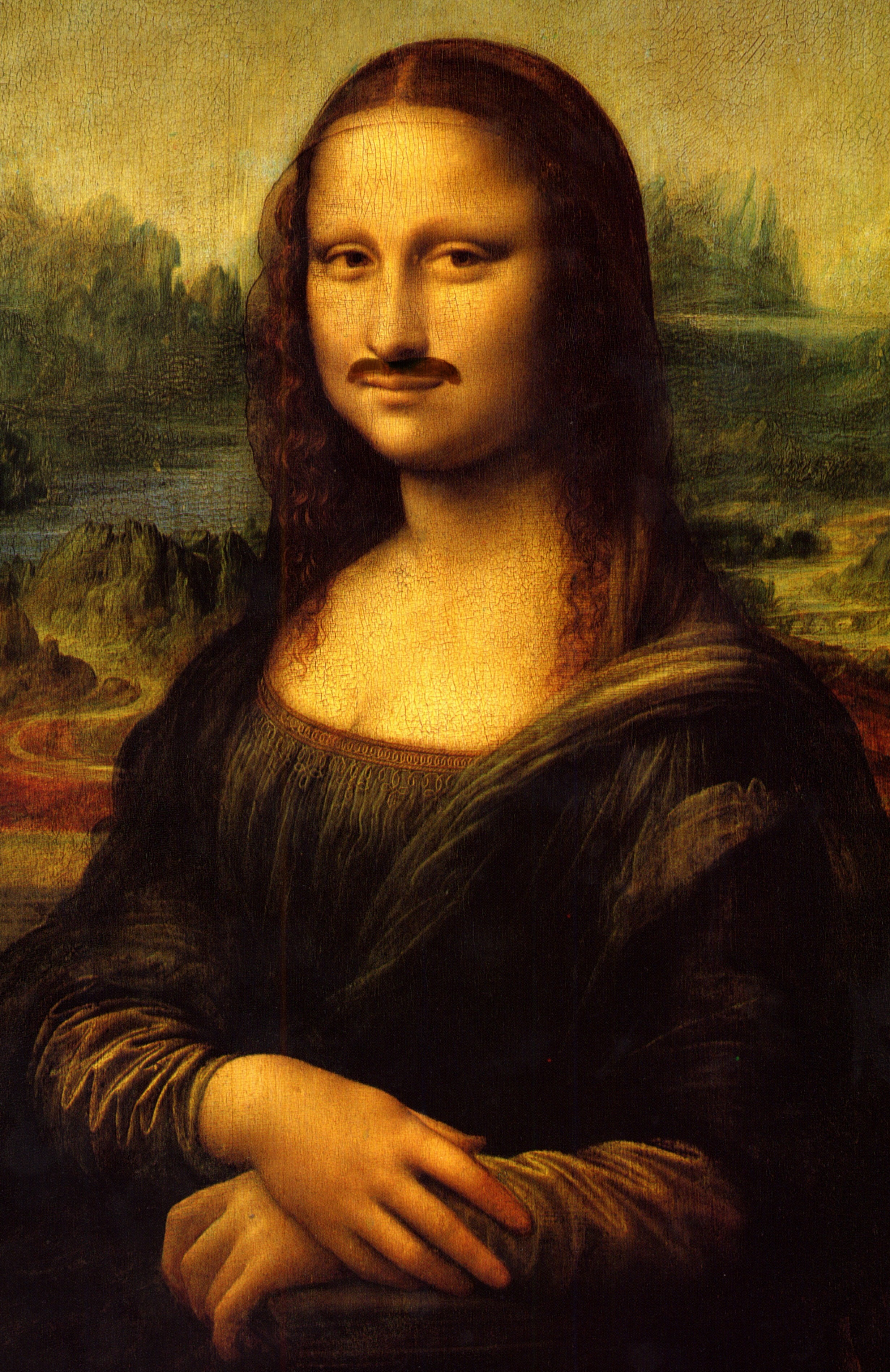 Mona Lisa with moustache (Movember)